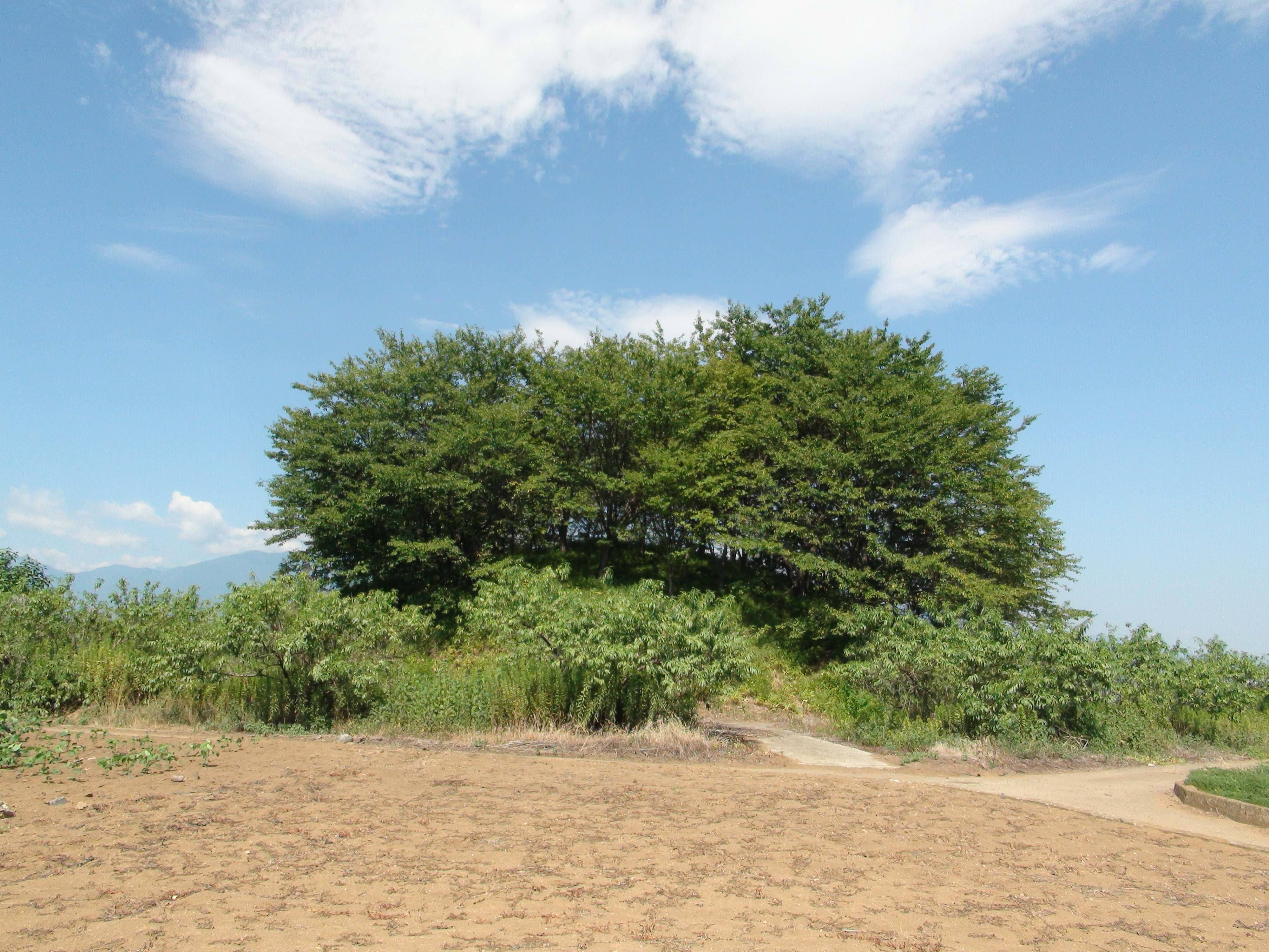 Ouzuka-Kofun Old tomb Chuo-City from southeastern side